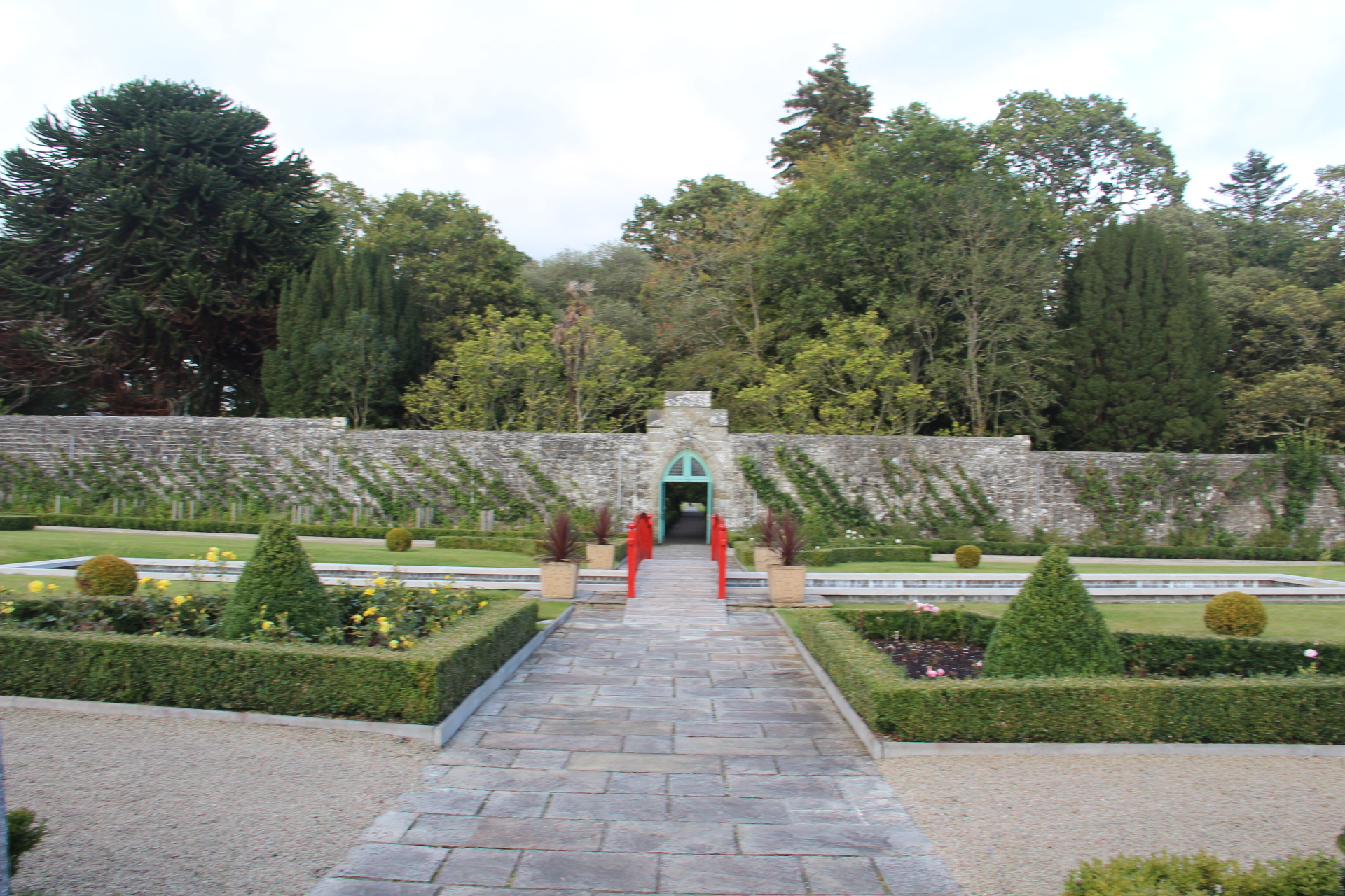 Bridge in upper walled garden